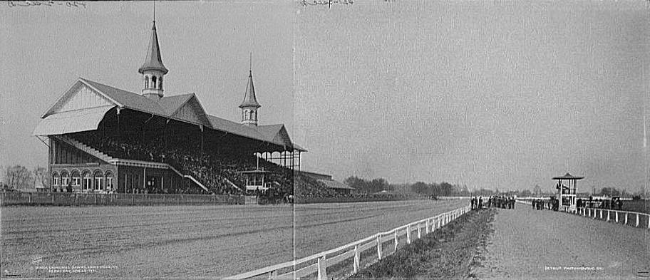 Composite image of Churchill Downs, Kentucky — taken in 1901.